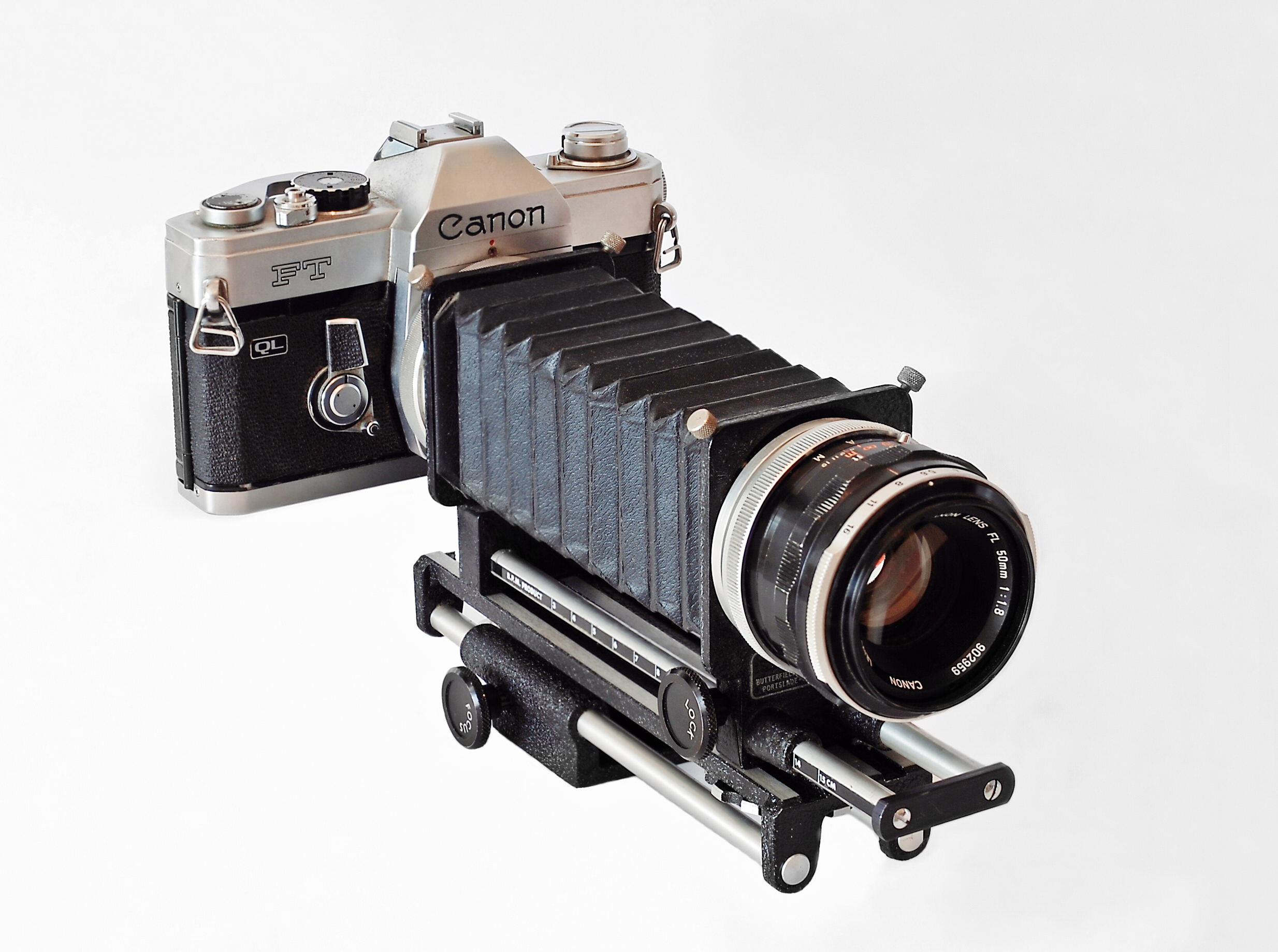 A bellows for macrophotography mounted in a Canon FT QL (1966).